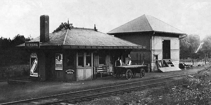 The former Erie Railroad station at Verona, New Jersey as viewed from the camera of J.E. Bailey in 1909.